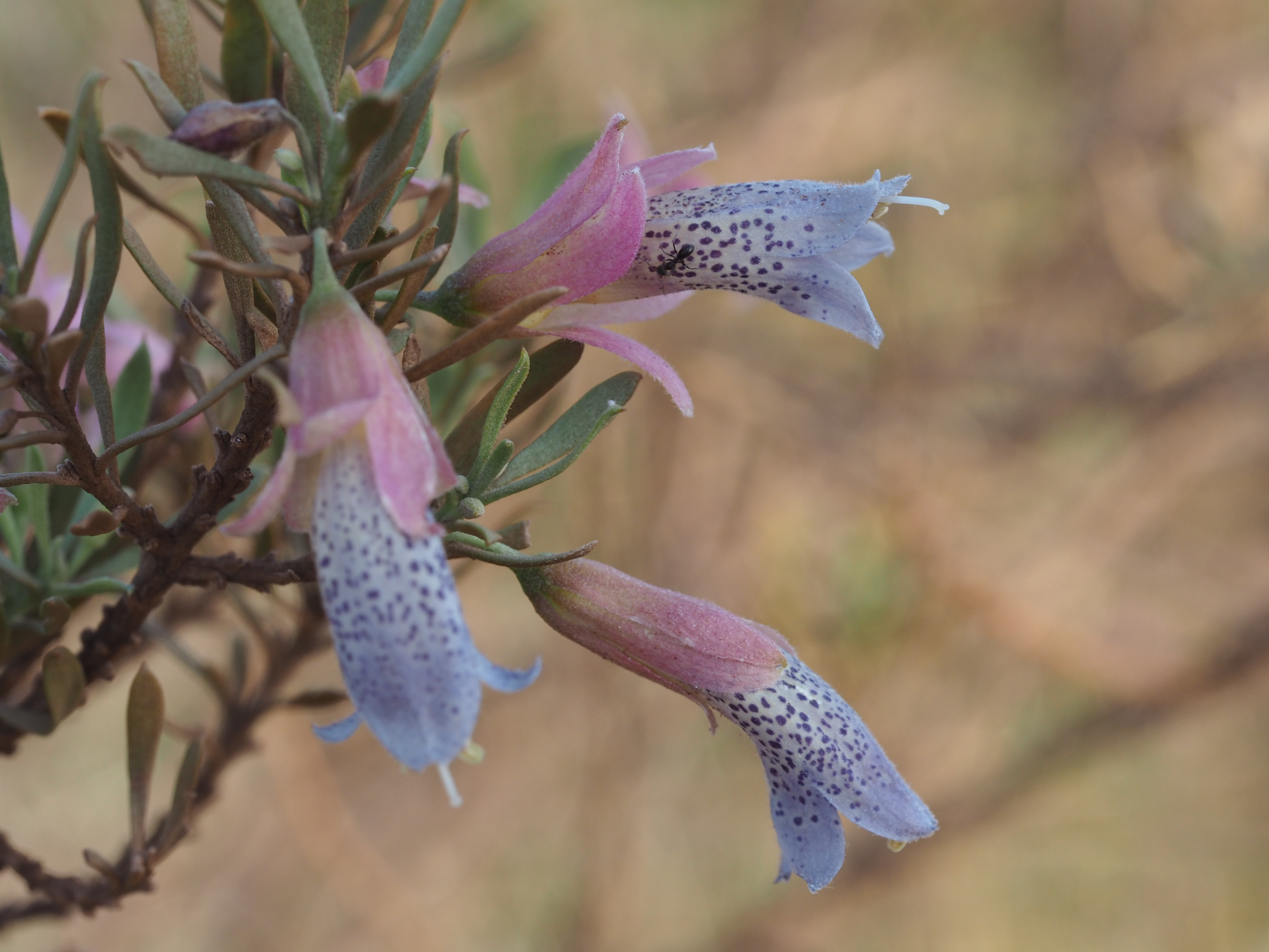 Eremophila platycalyx pardalota growing at the Hilditch lookout near Newman